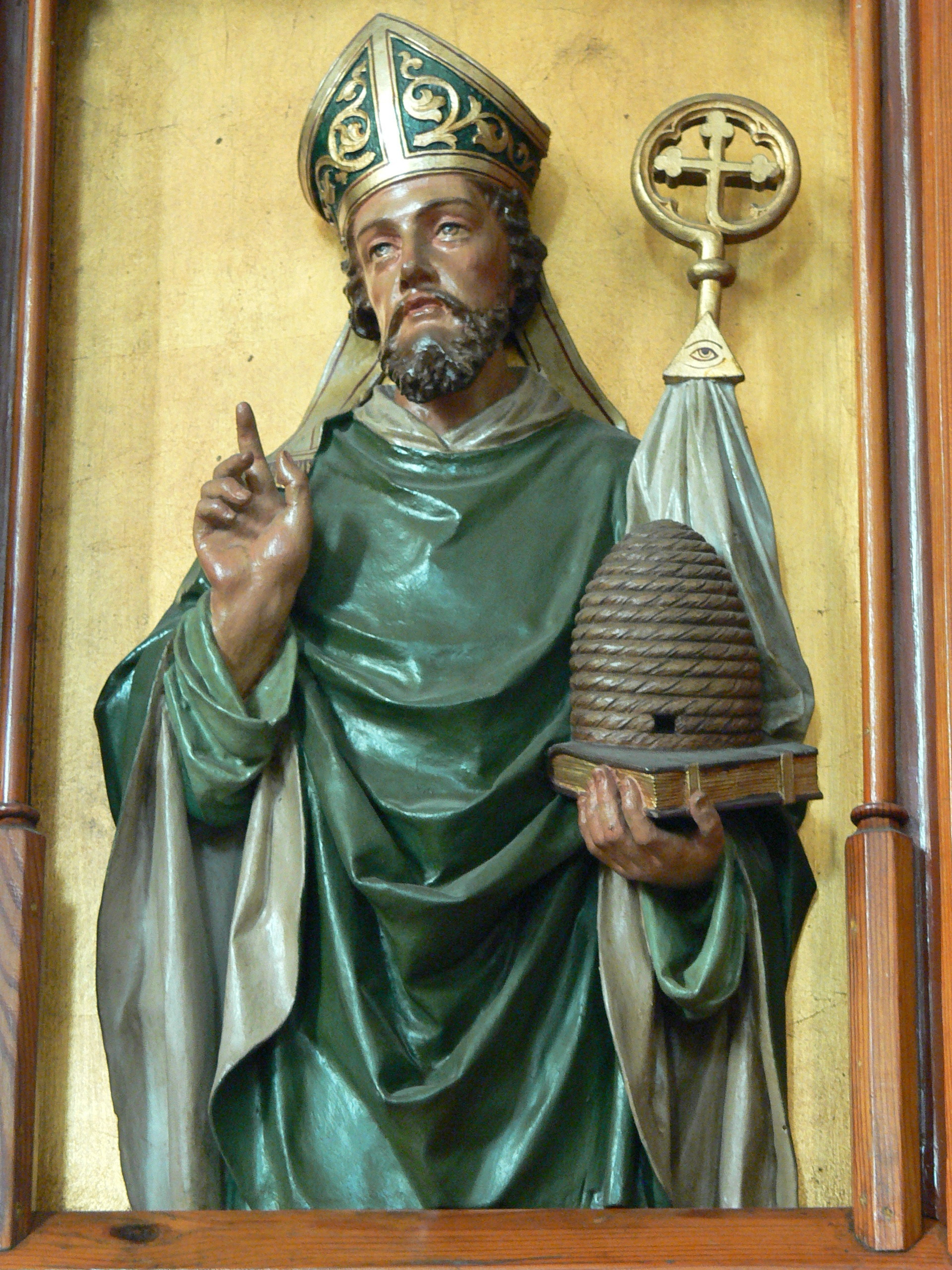 St.Peter am Wimberg ( Upper Austria ). Parish church: Gothic revival pulpit ( 1904 ) by Michael Plakolb - Relief of Saint Ambrose.